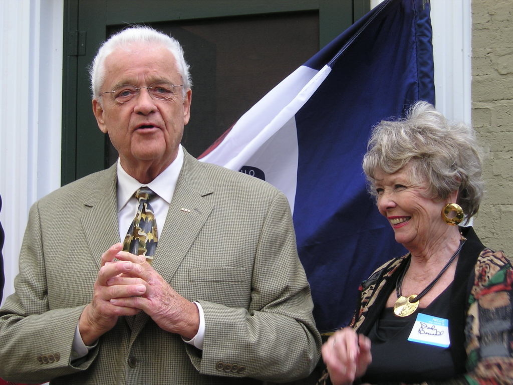 Congressman Leonard Boswell and his wife Dody.